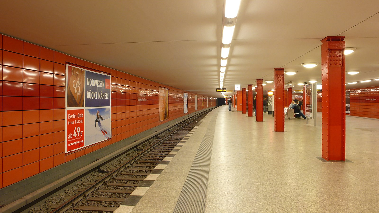 Frankf Allee Subway